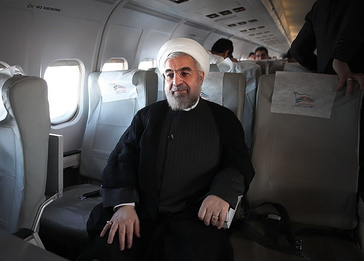 Presidential candidate, Hassan Rouhani traveles to Isfahan for a electoral convention